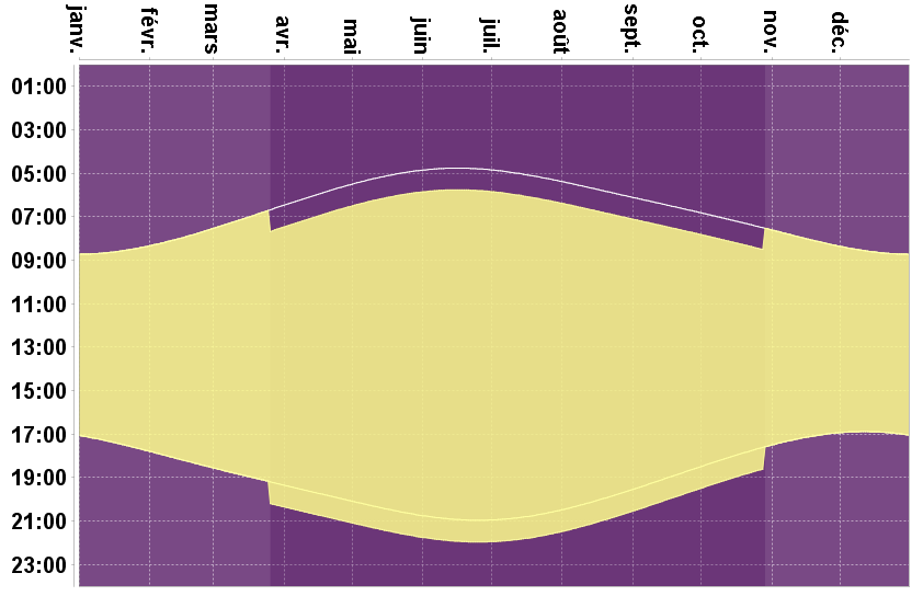 The chart plots the times of sunrise and sunset (with DST adjustment as separate lines) in Paris, France (UTC+01:00) for 2018.